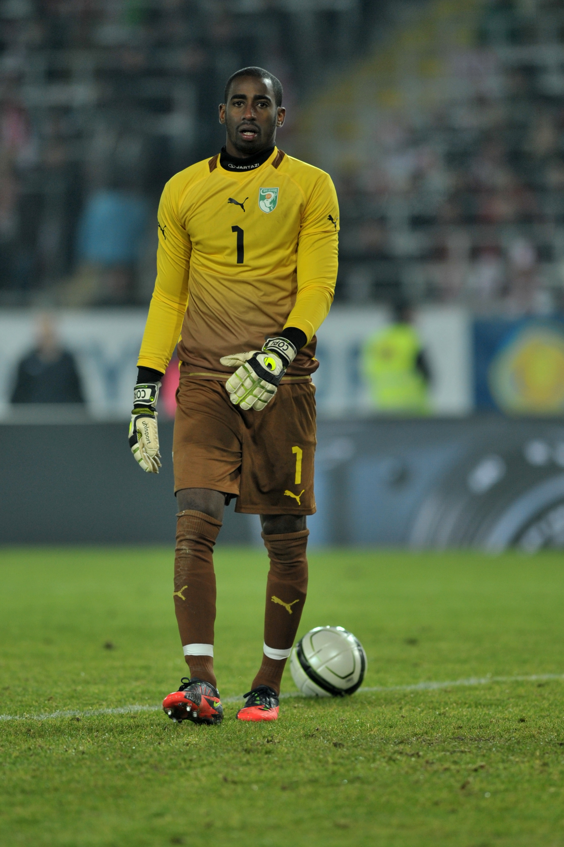 ÖFB freundschaftliches Länderspiel - Österreich vs Elfenbeinküste am 14. November 2012 The making of this work was supported by Wikimedia Austria. For other files made with the support of Wikimedia Austria, please see the category Supported by Wikimedia Österreich. Elfenbeinküste Nr. 1: Boubacar Barry